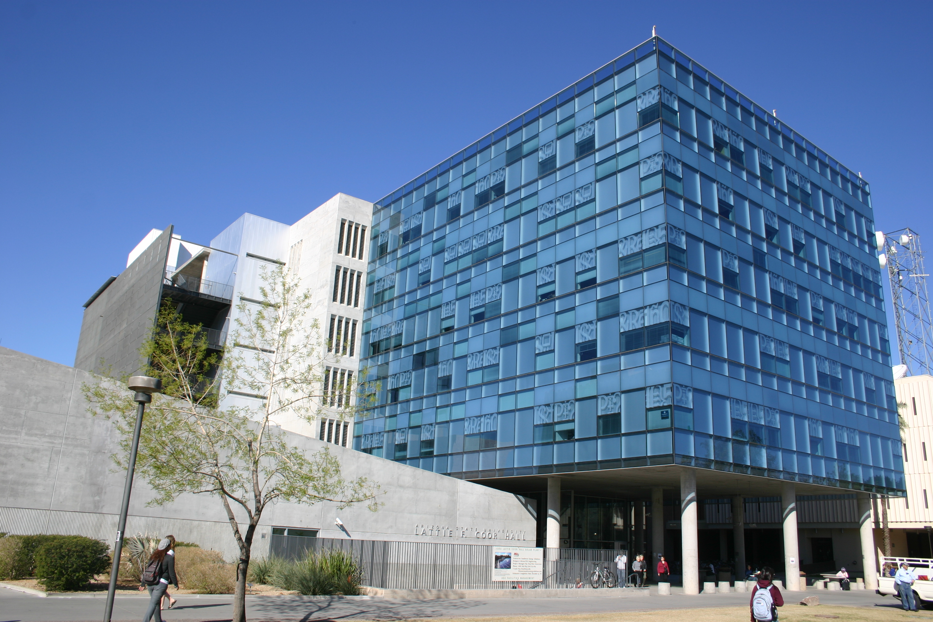 Photo of the south east side of the Lattie F. Coor Hall building. Part of the ASU Main Campus in Tempe, Arizona